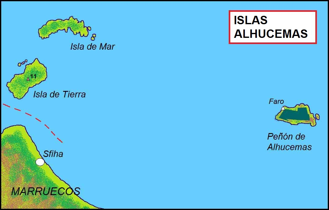 A mapa of thes spanish Alhucemas Islands